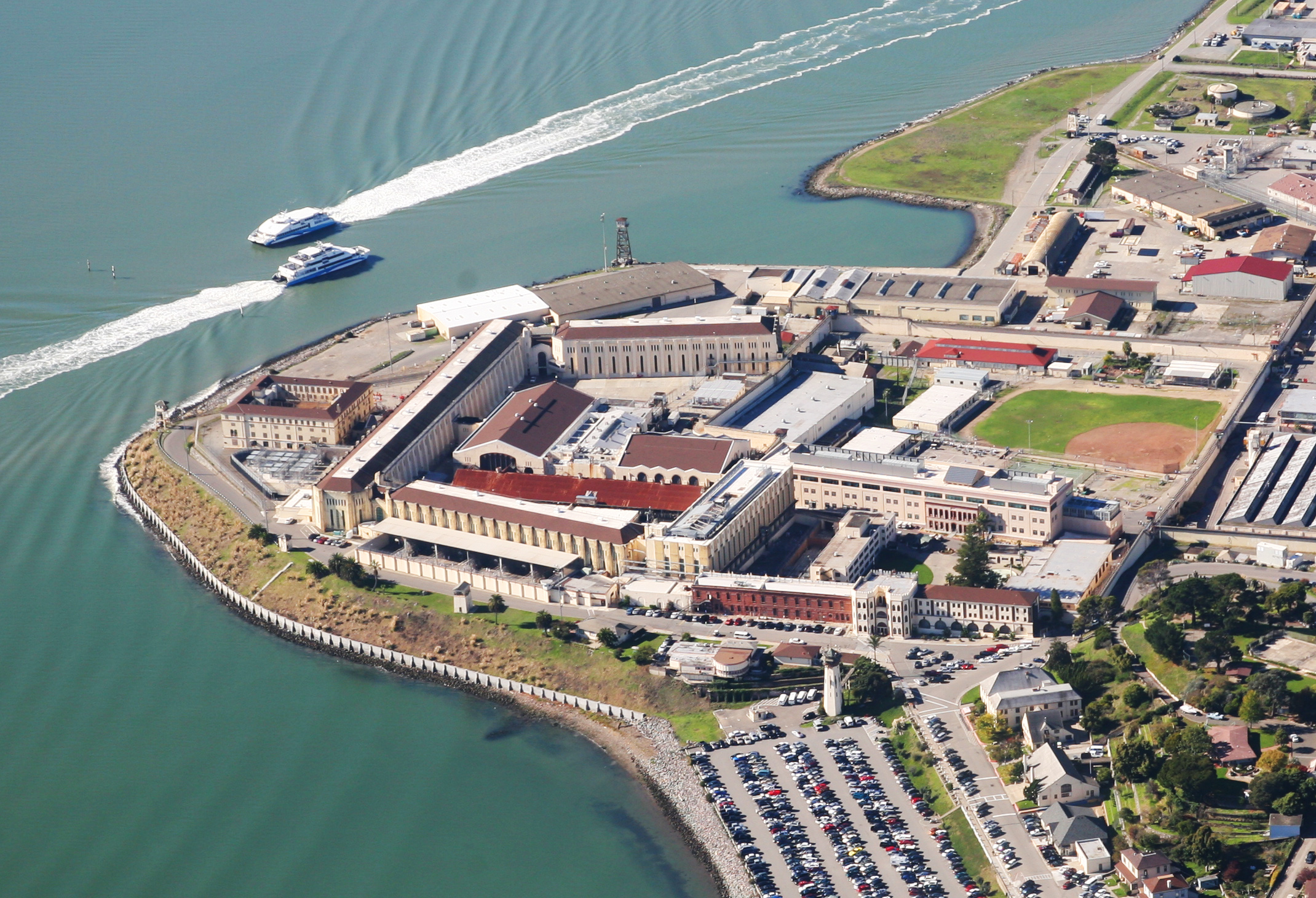 Across the bay from San Francisco, not quite as famous as Alcatraz which is on an island between here and the city. The two boats passing each other just off-shore are passenger ferries that take commuters between Larkspur and downtown San Francisco